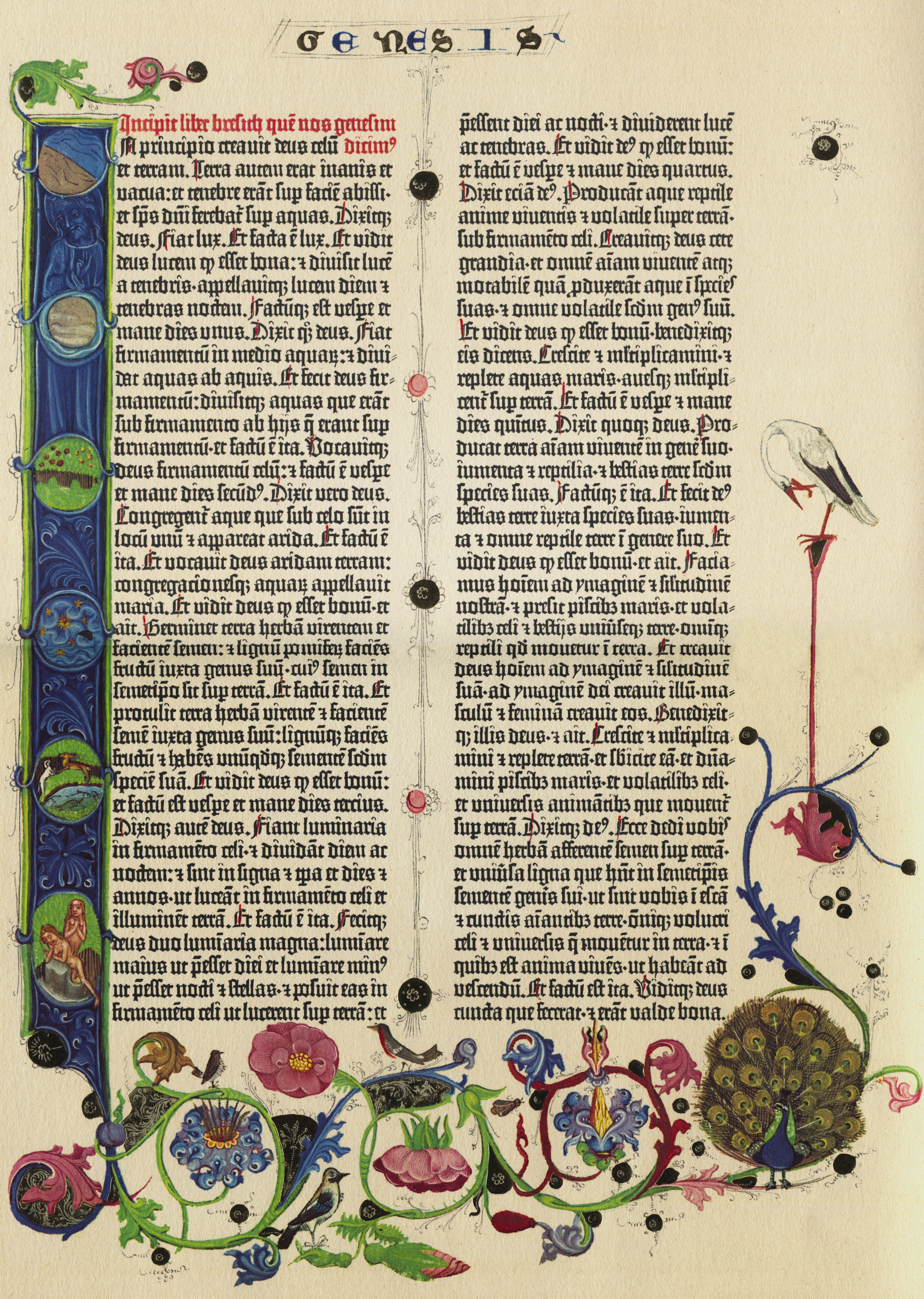 Beginning of book Genesis in 42-line Gutenberg bible (fol. 5r of vol. 1 in illuminated copy of Staatsbibliothek Berlin)